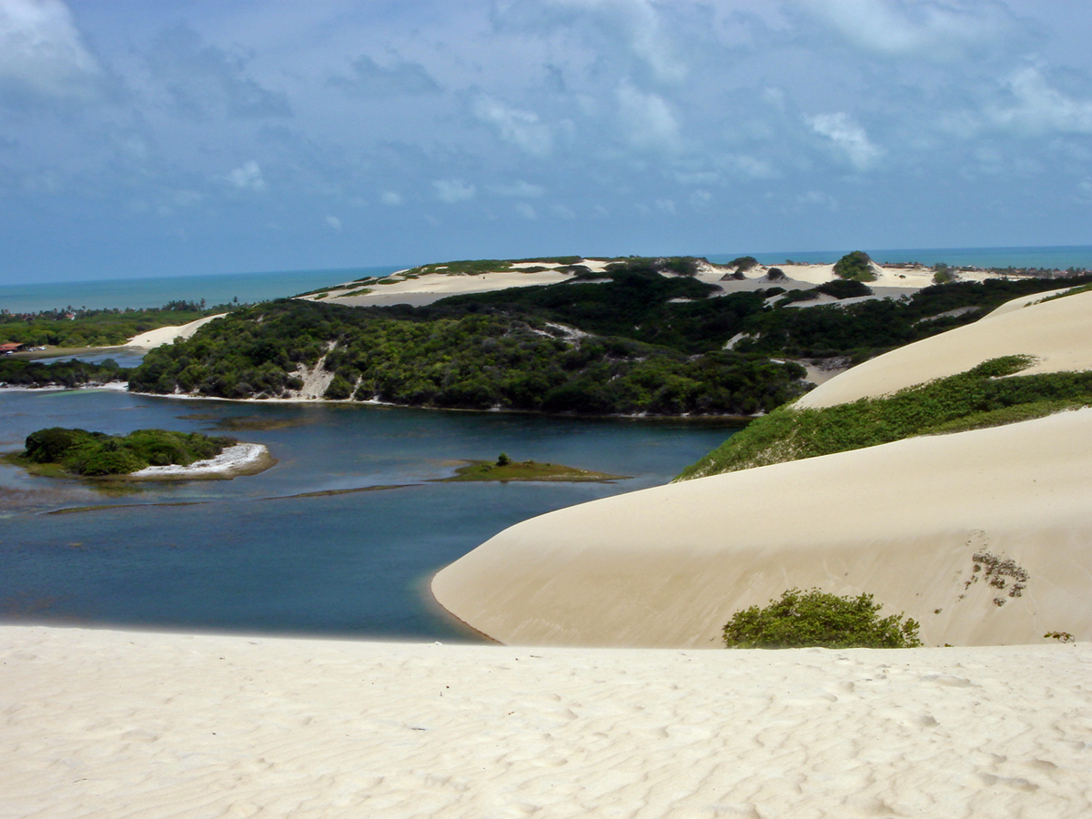 Genipabu dunes and beaches, near Natal, Rio Grande do Norte, Brazil